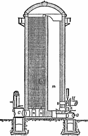 Sectional elevation of the Cowper hot blast stove